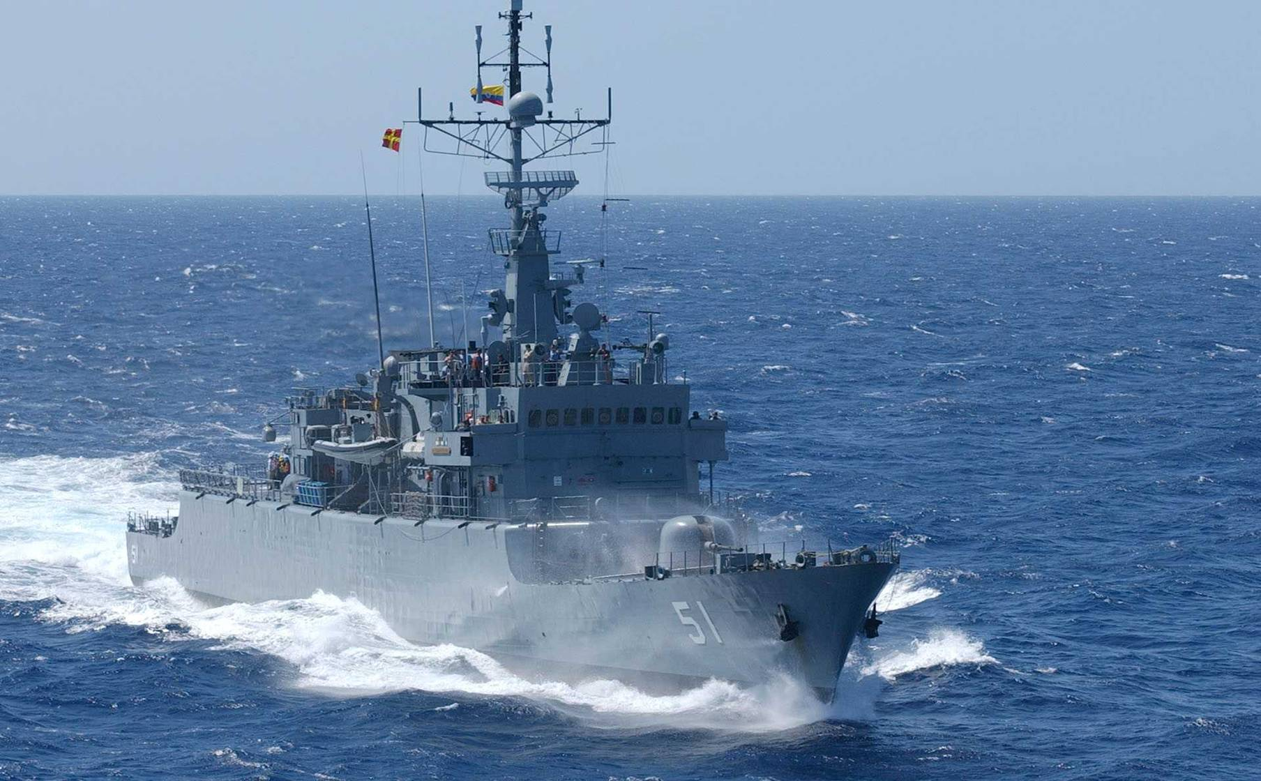 It is a picture of my own property, i am an officer of the Colombian navy, ensign rank, im not aware if this image is or is not already on the internet, but it is not copyrighted.